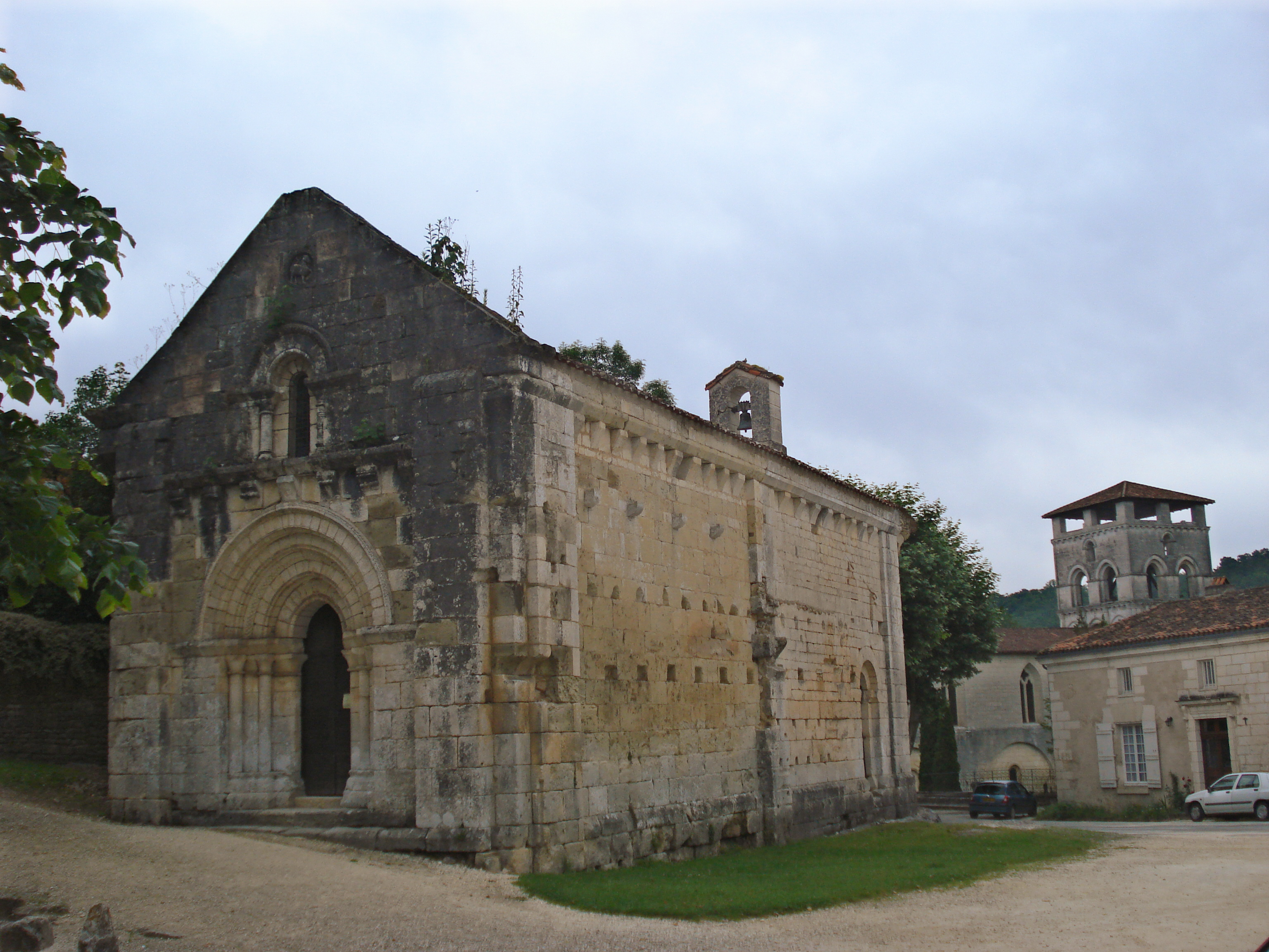 Chancelade (Dordogne - Fr), la Chapelle Saint Jean, in the background the abbaye.